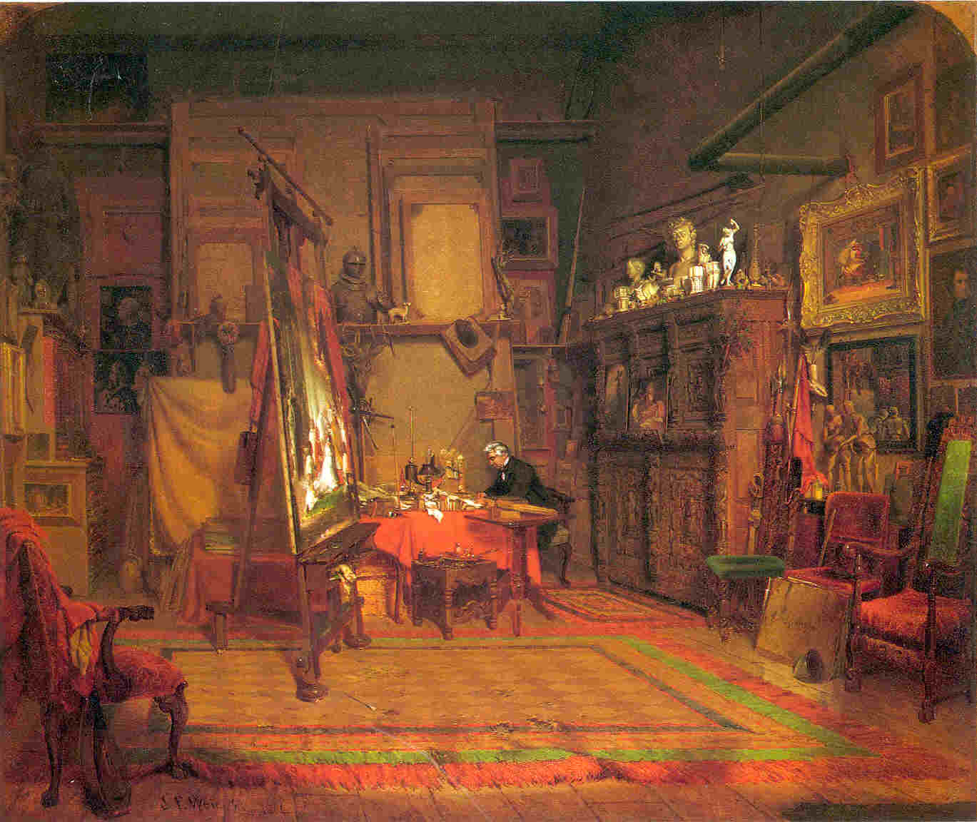 Painting of his father's art studio